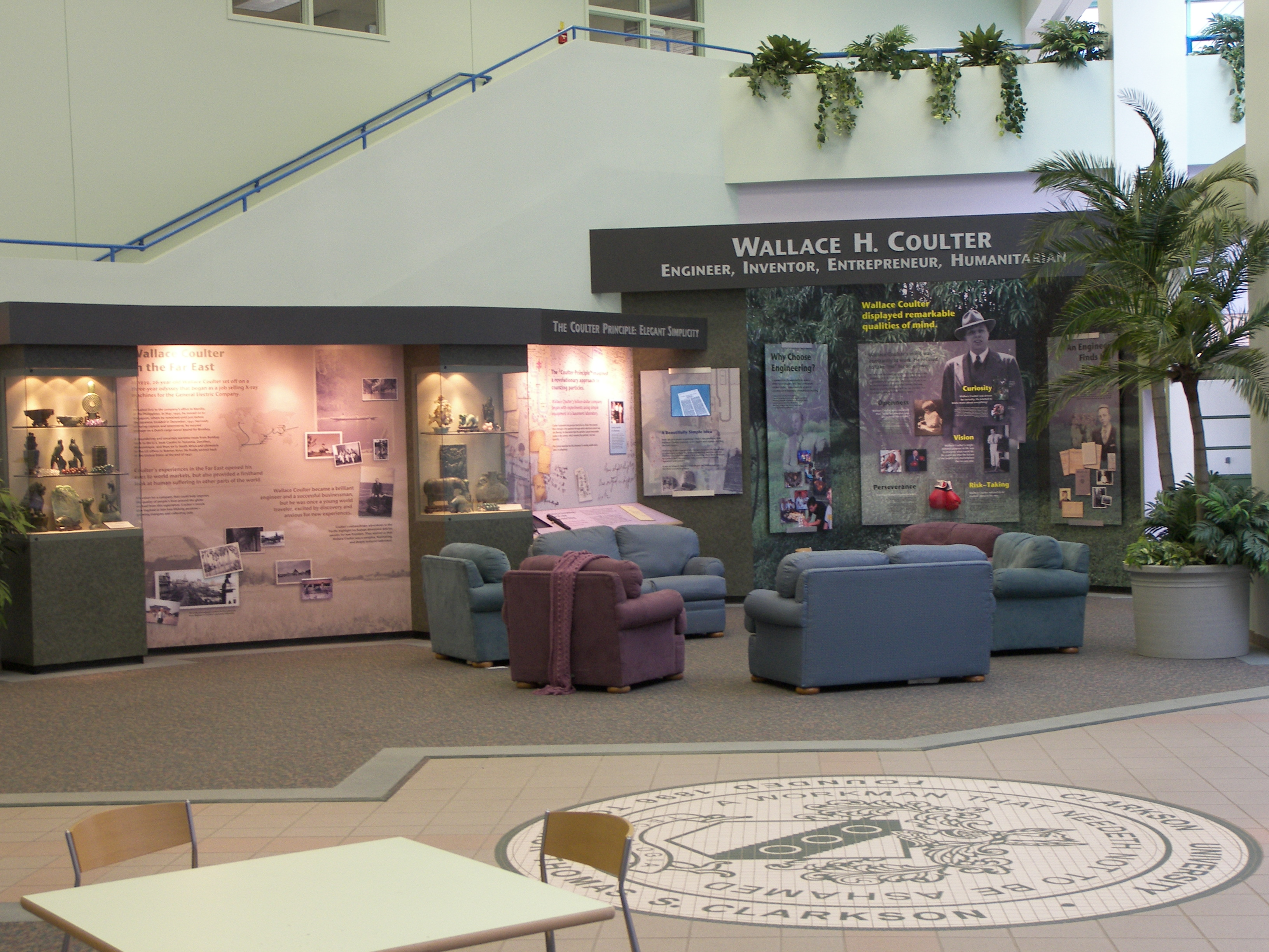 Wallace H. Coulter School of Engineering, Clarkson University